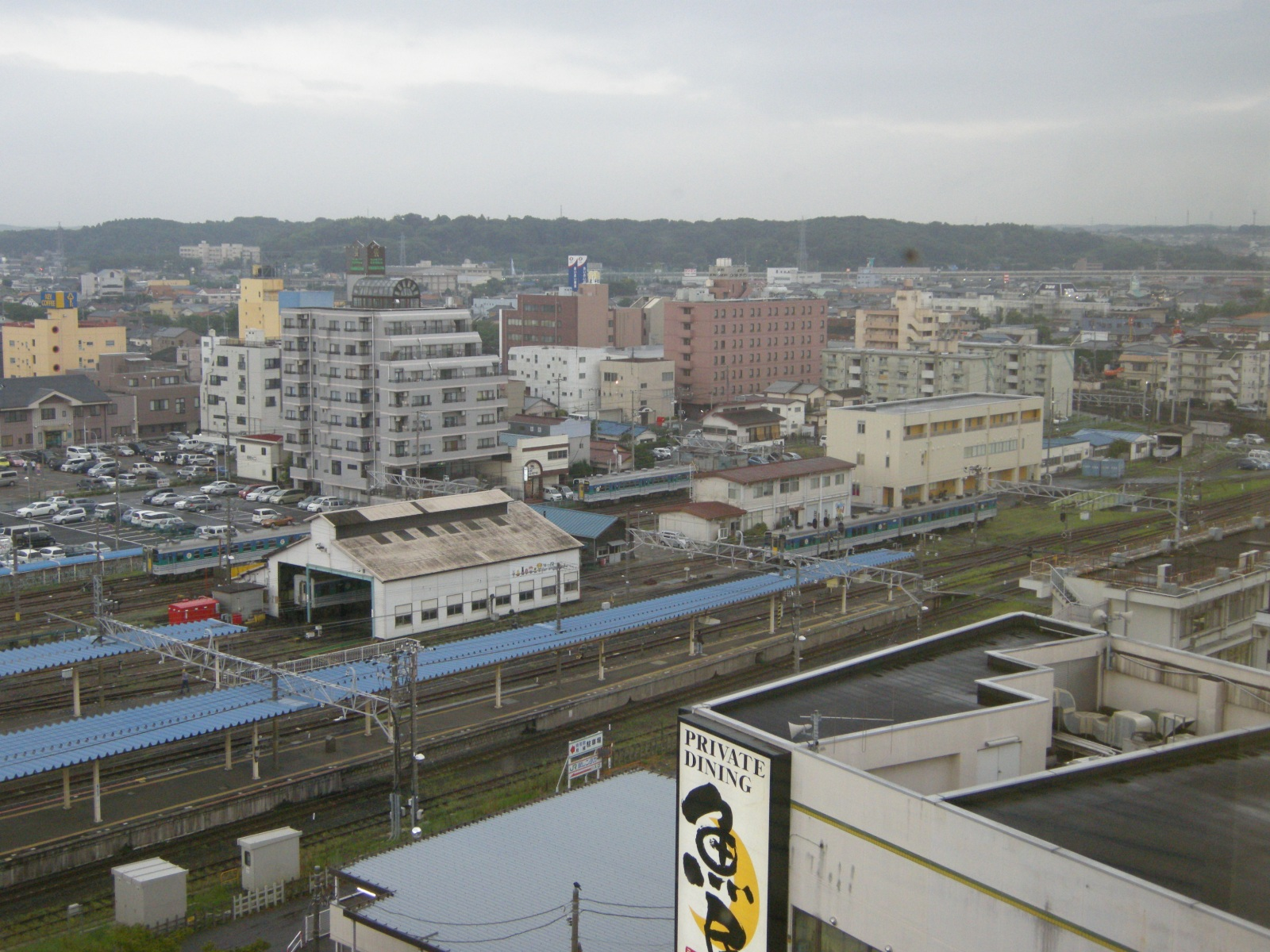 This center is the garage of Kururi Line's cars.